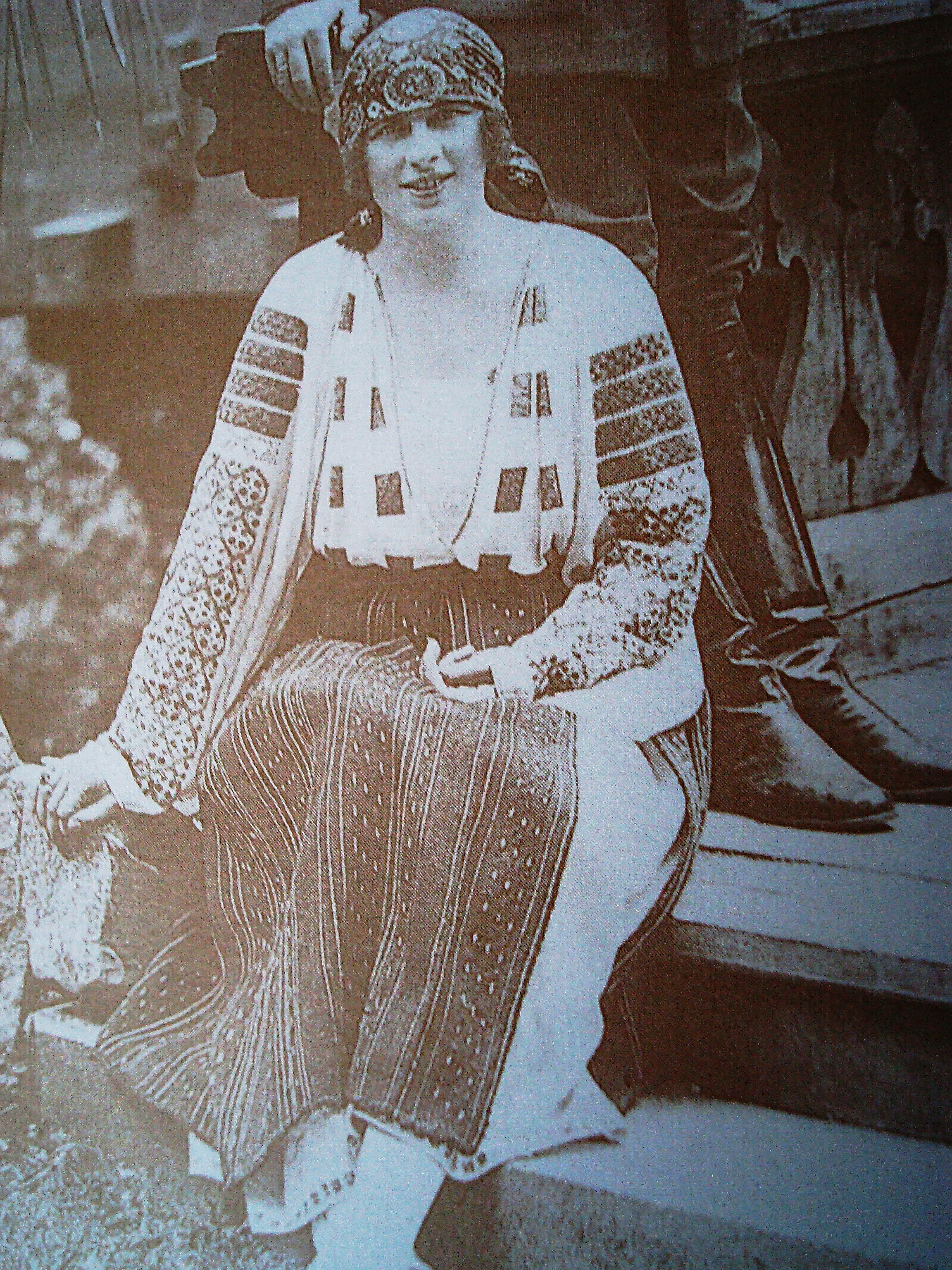 Helen of Greece and Denmark, the wife of King Carol II of Romania and the mother of King Michael I of Romania.